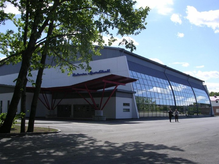 Rakvere Spordihall that is home to basketball club Rakvere Tarvas and volleyball club VK Rivaal (Grossi Toidukaubad)